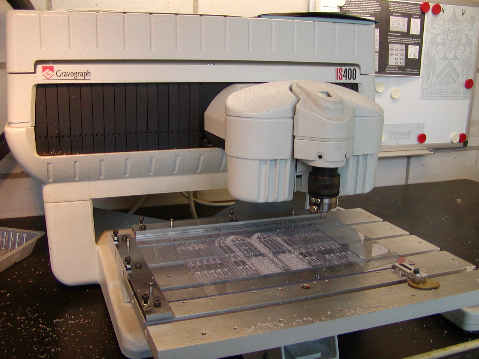 A computer-controlled engraving machine, mark Gravograph.